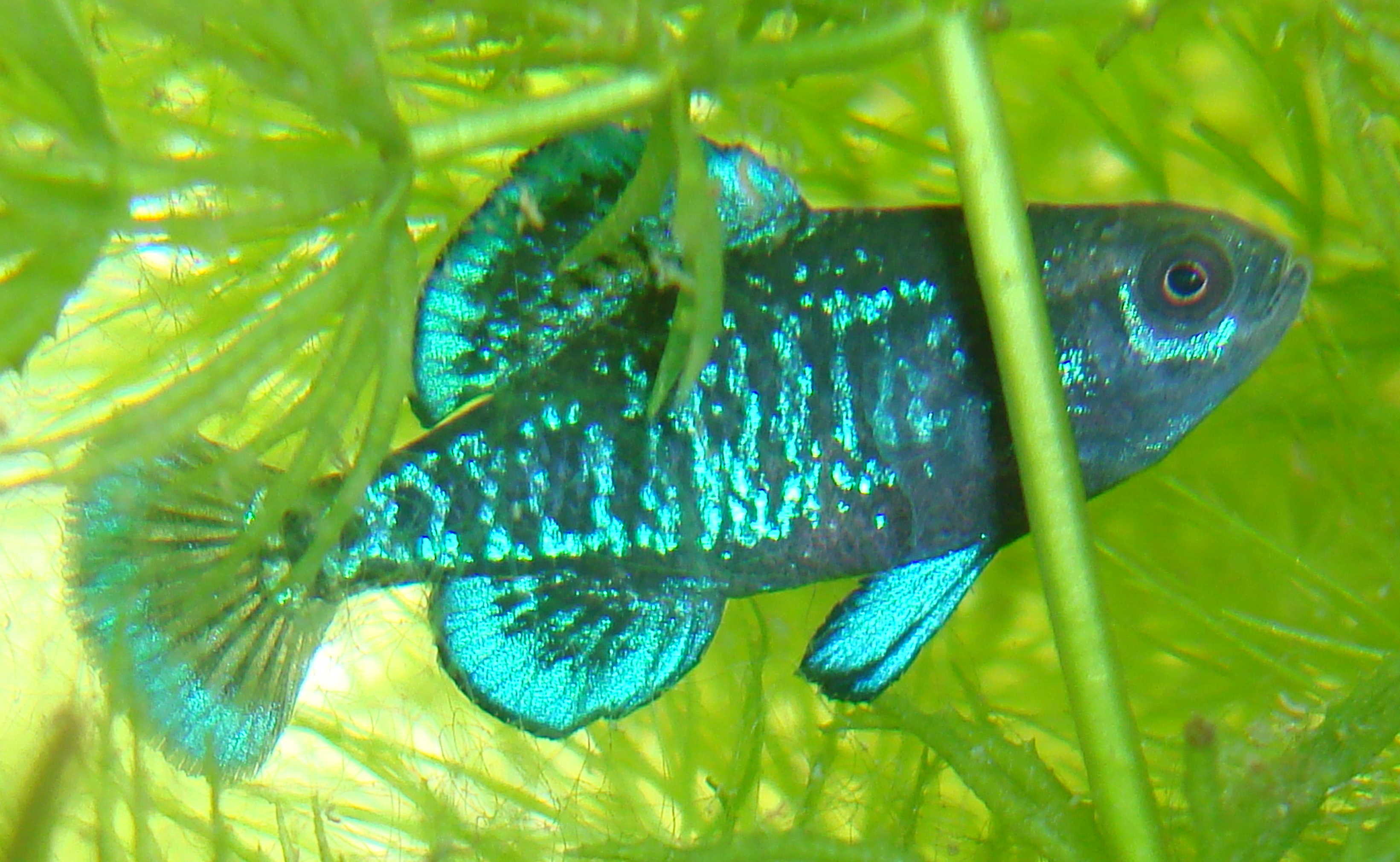 Elassoma gilberti (gulf coast pygmy sunfish) male in breeding colors. They stay in breeding colors regardless of the season as long as they're well fed and the dominant male. Subdominant males stay fairly clear or brownish, to avoid antagonizing the dominant male.